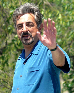 Joe Mantegna at a National Memorial Day parade